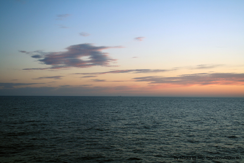 Baltic Sea Sunset